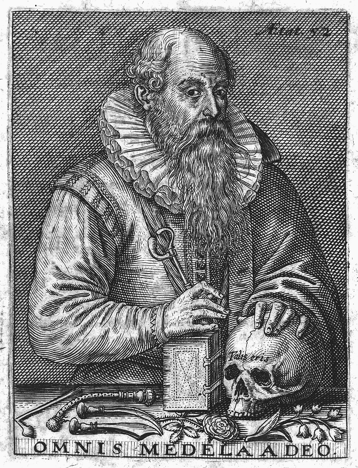 Portrait of Gulielmus Fabricius Hildanus (1560-1634) Rare Books Keywords: surgeon, 16th-17 century; Gulielmus Fabricius Hildanus